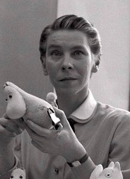 Artist and writer Tove Jansson in 1956.